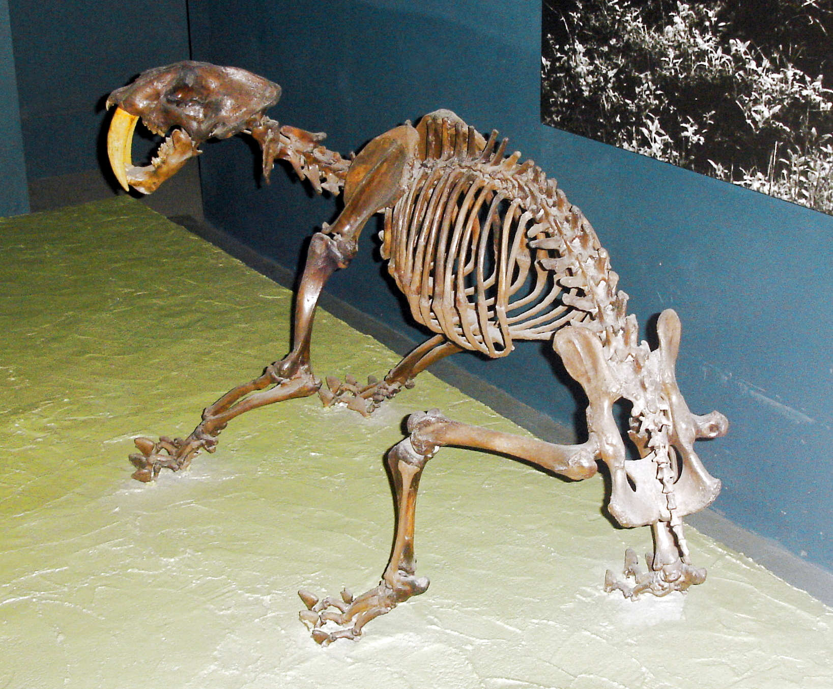 A fossilized skeleton of a sabre-toothed cat (Smilodon californicus) on display at the Smithsonian Museum of Natural History. Sabertooth Cat discovered at the Cumberland Bone-Cave near Cumberland, Maryland. Category:History of Cumberland, MD-WV-PA